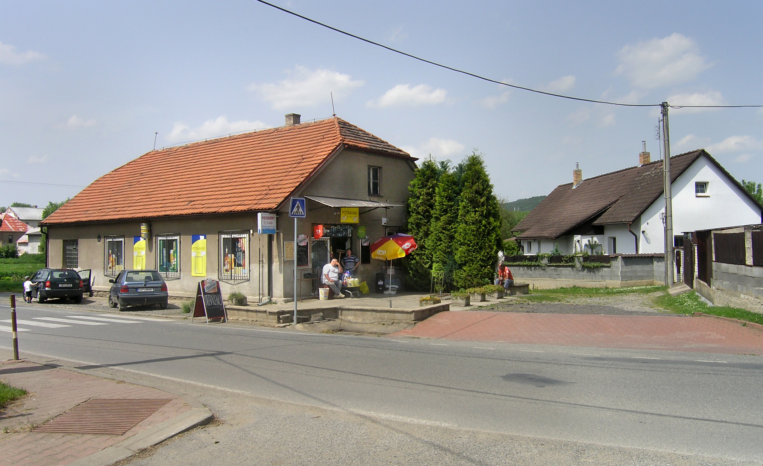 Small shop in Hostěradice, part of Kamenný Přívoz, Czech Republic